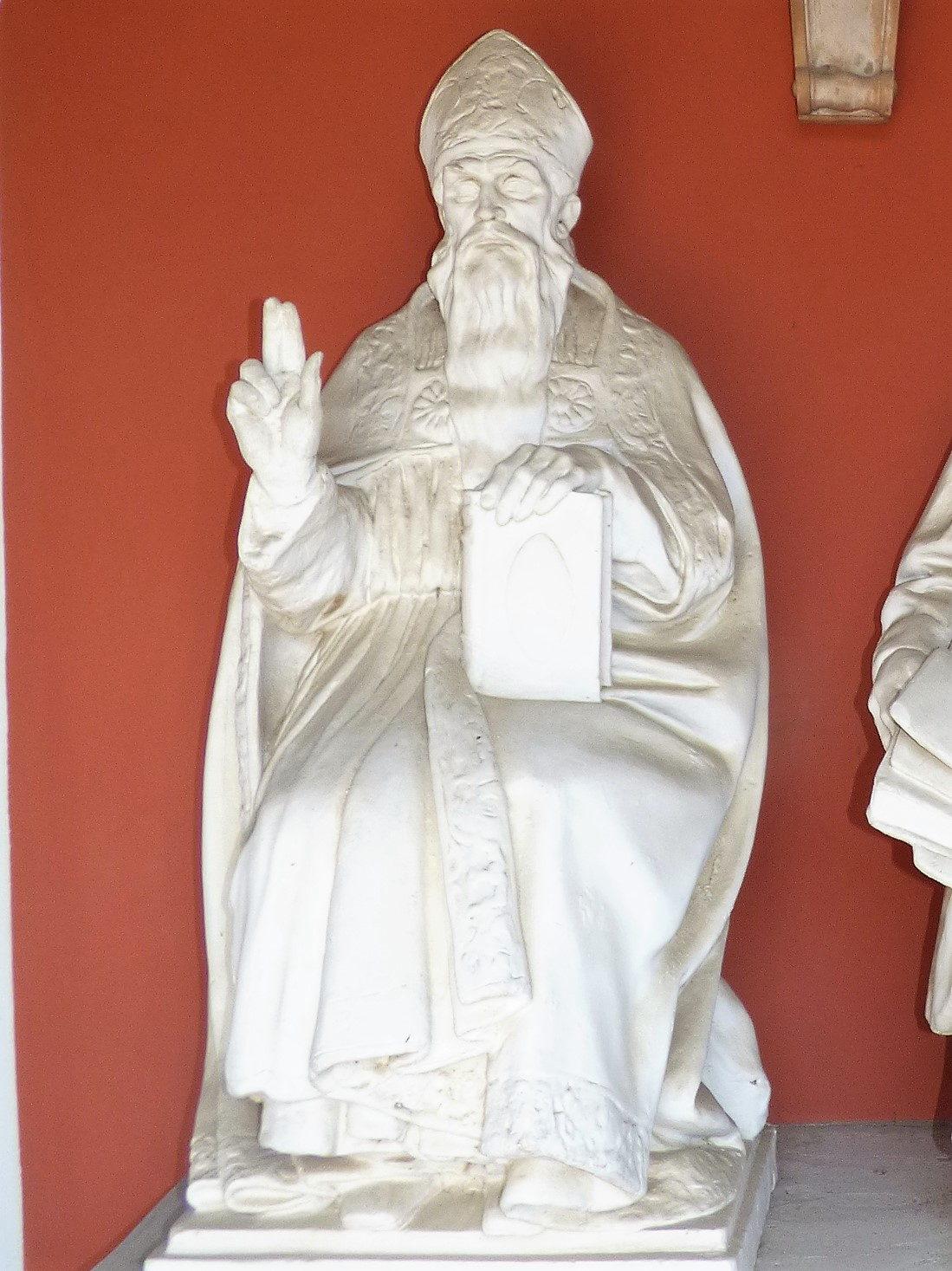 Szent Adalbert szobra a Bory-várban